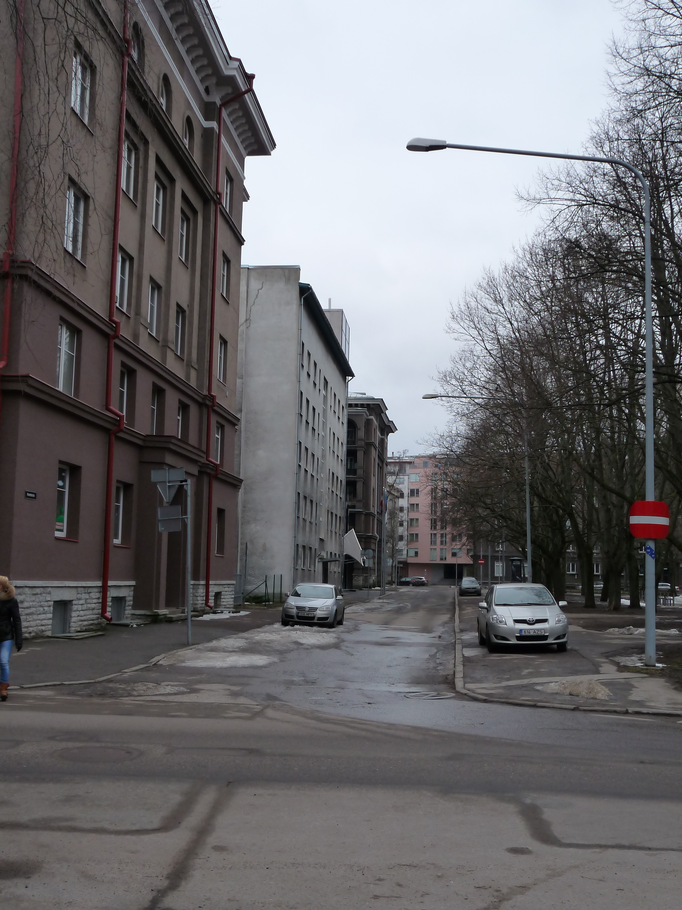 Vambola street in Tallinn, Estonia